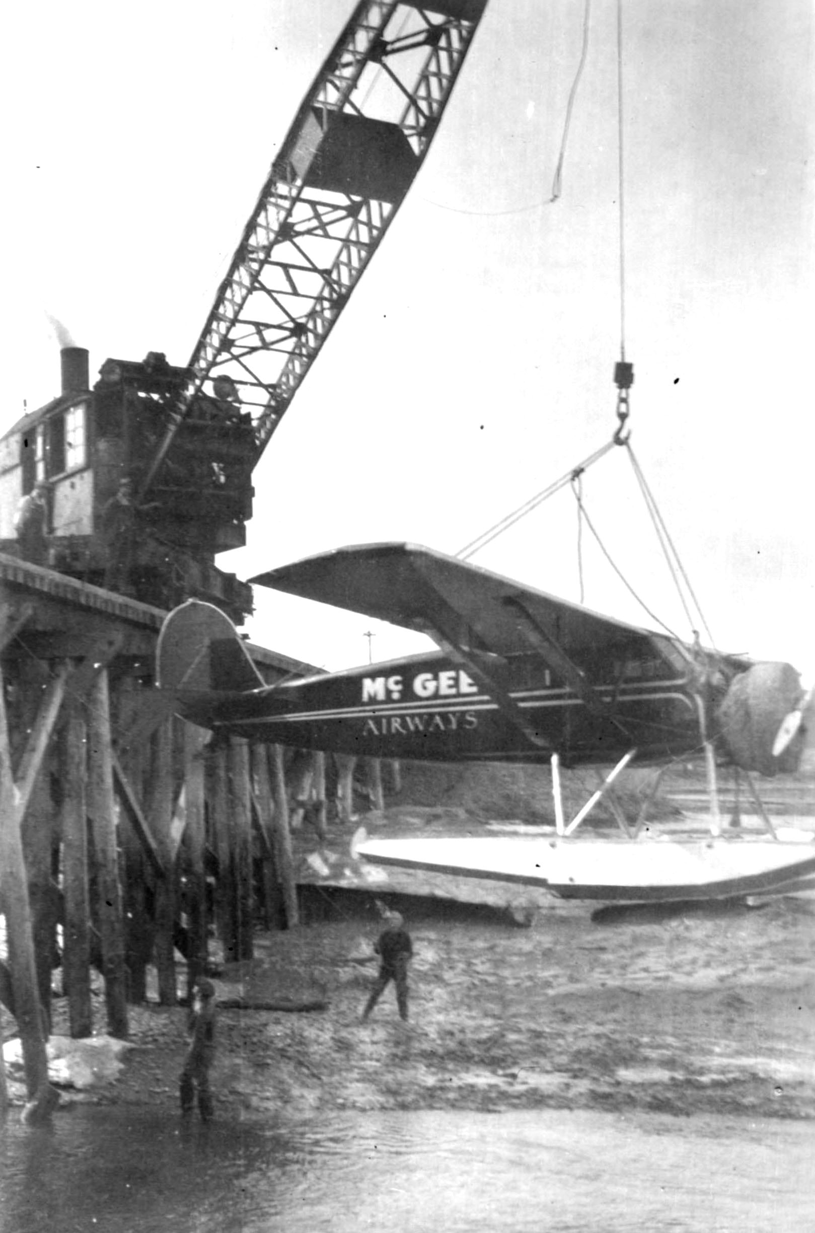 A McGee Airways Stinson airplane after installation of pontoons waiting to be lowered by Alaska Railroad crane into Ship Creek in Anchorage, Alaska where it will taxi to Cook Inlet for takeoff.